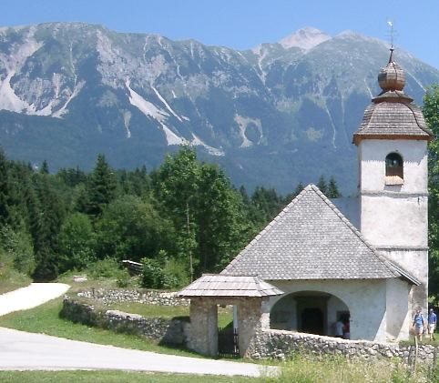 Hochstuhl (German) / Stol (Slovene) in the summertime. The church in the picture is St Catherine (Slovene sv. Katarina) upon the village of Zasip near Bled (Slovenia).